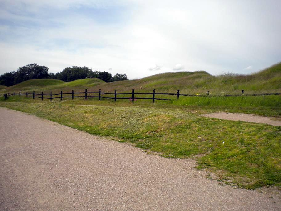 Old Upsala’s smaller tumuli, as released by image creator RistessonPlace: Gamla Uppsala, Sweden